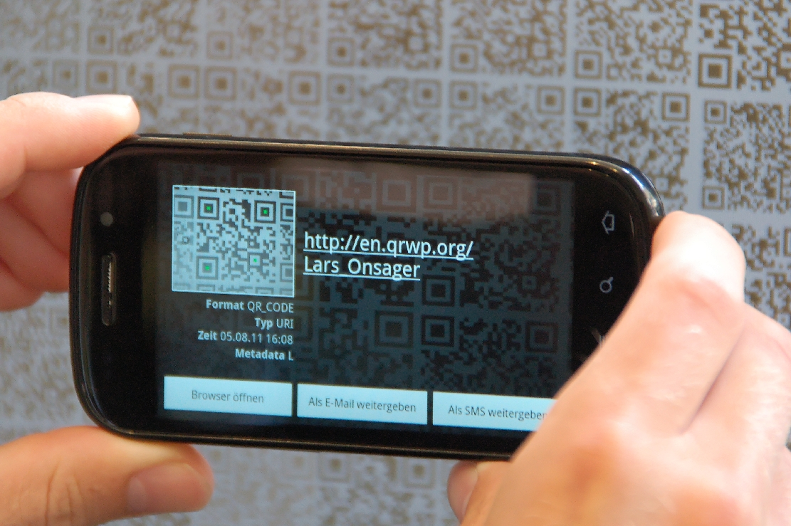 Impressions Wikimania 2011 Haifa